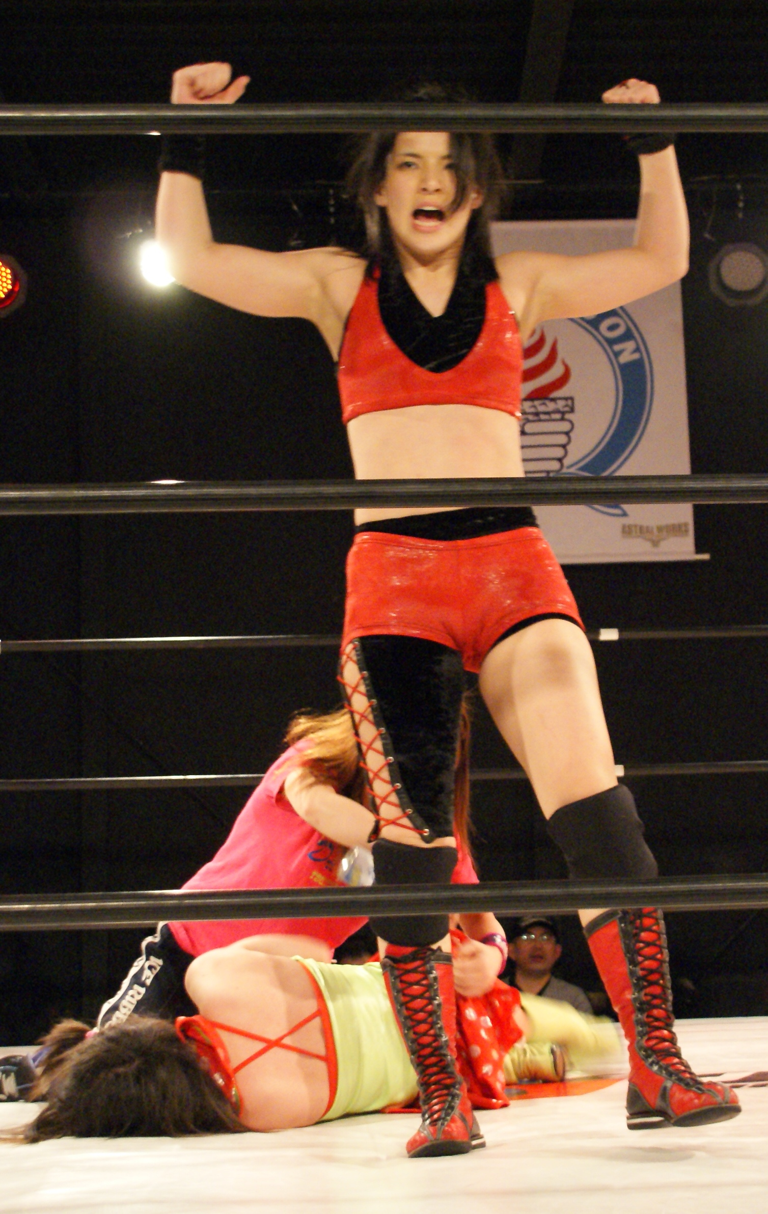 Professional wrestler Hikaru Shida posing after defeating Tsukushi at an Ice Ribbon event.